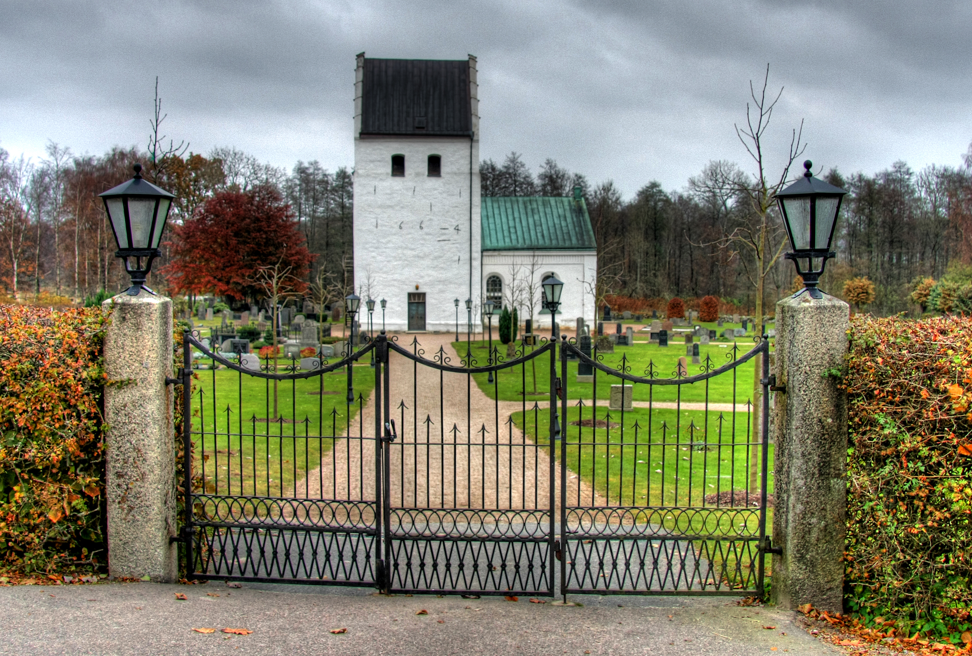 Finja kyrka (Church of Finja) in Finja, Sweden